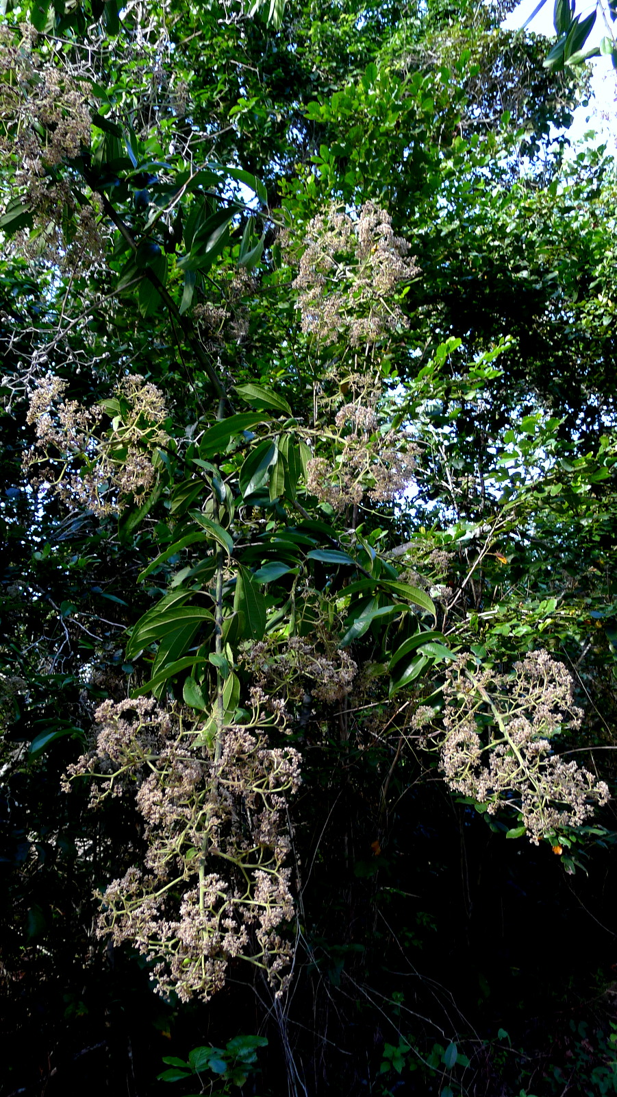 Sparattanthelium botocudorum Mart.